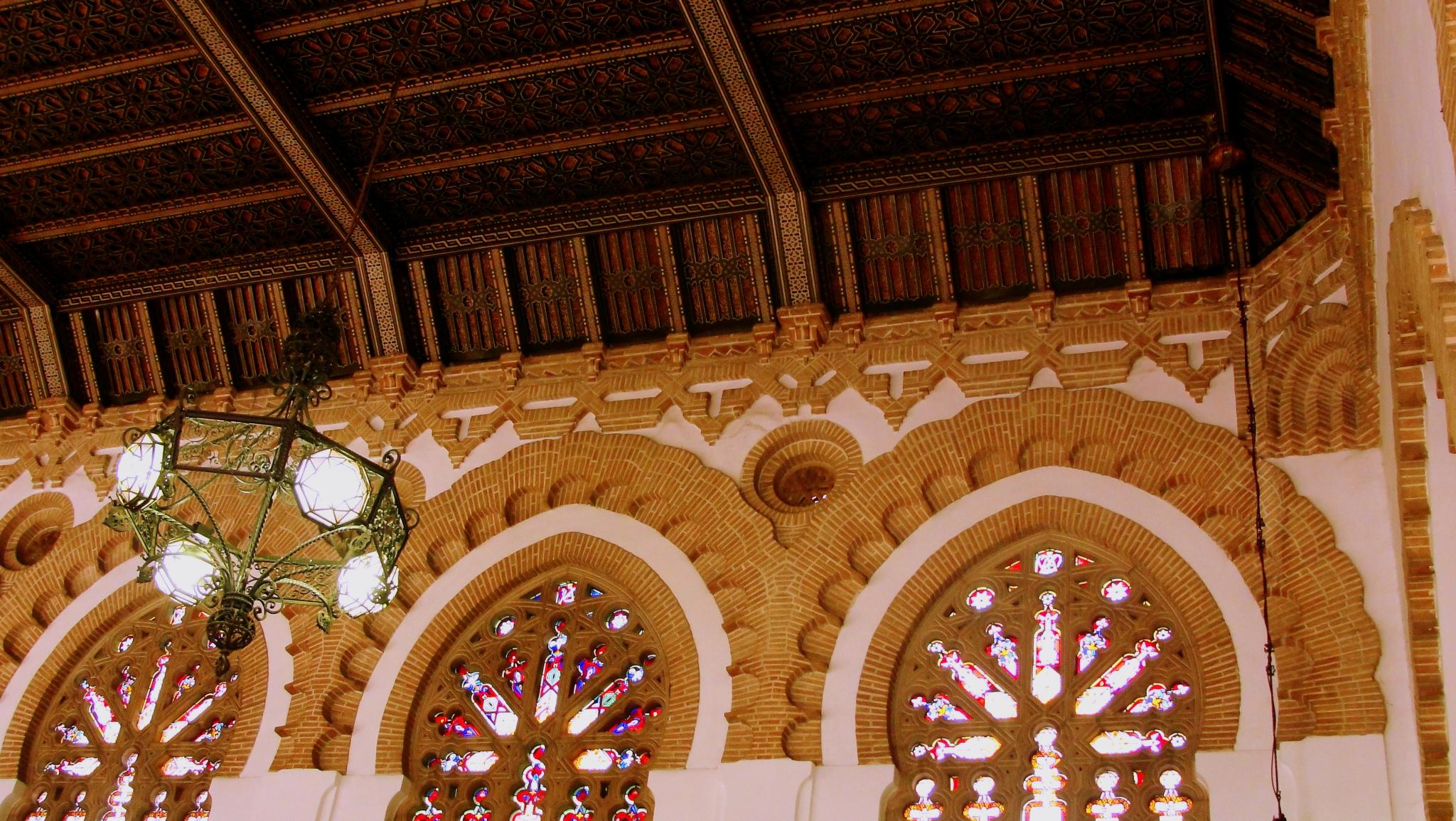 Interior de la estación ferroviaria de Toledo, Spain